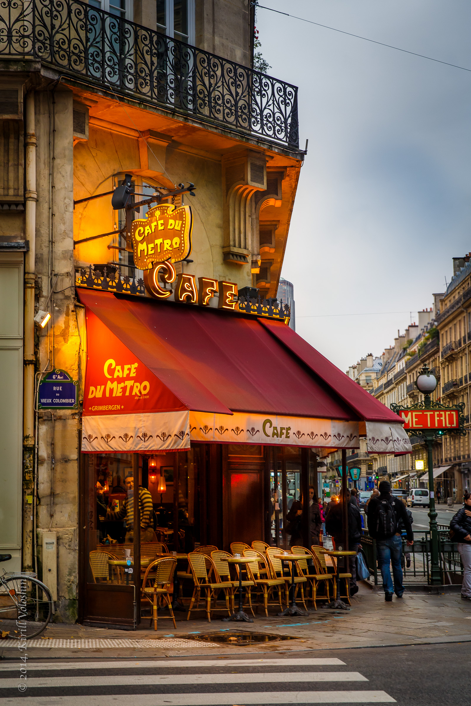 "Café du Métro", Paris, France.